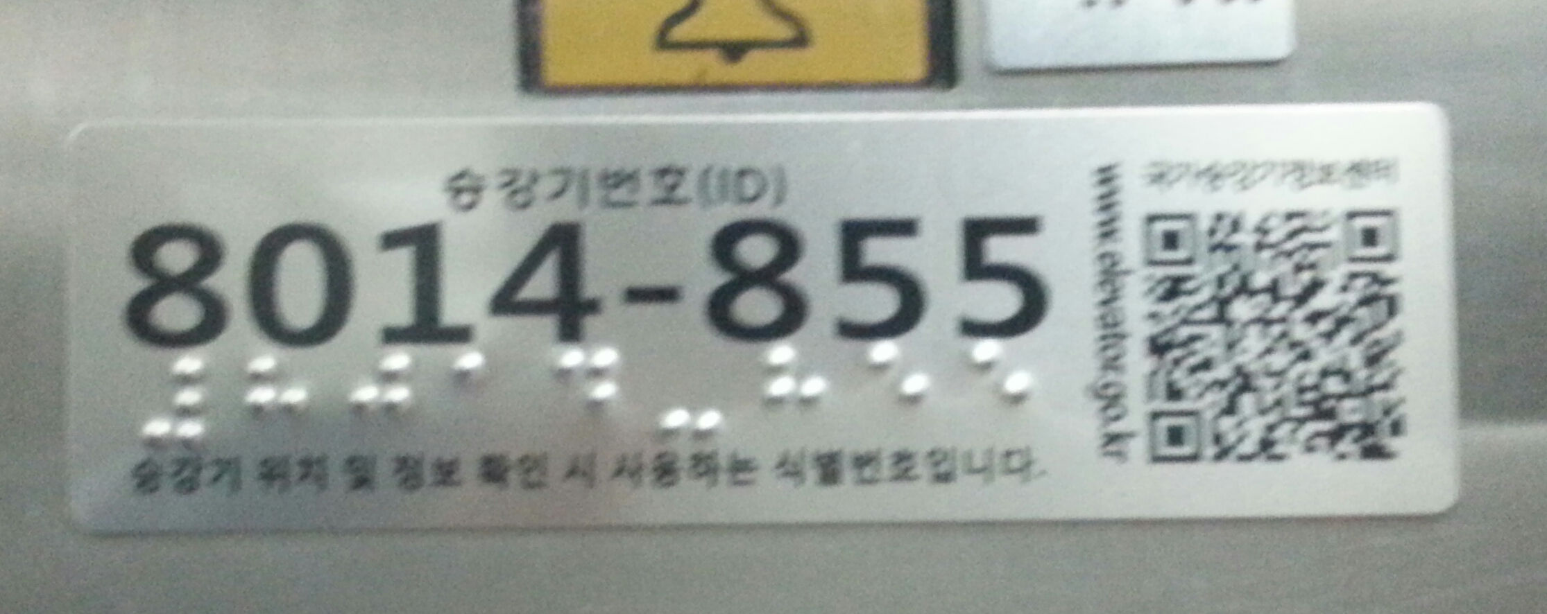 Elevator ID sign of Korea.